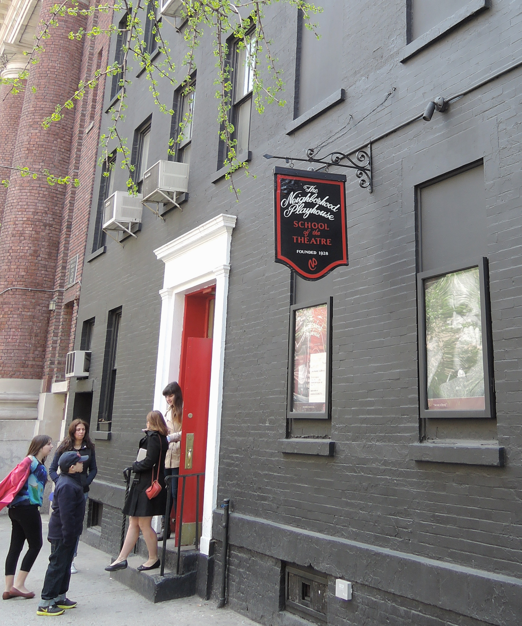 Looking east at playhouse school on a cloudy day.